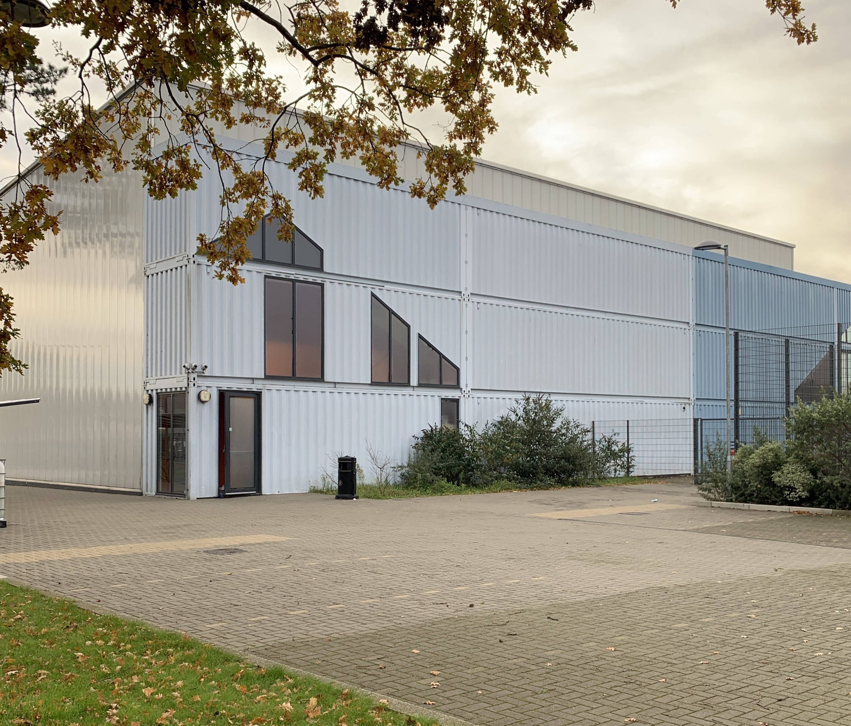 Dunraven School Sports Hall, Leigham Court Road, Streatham